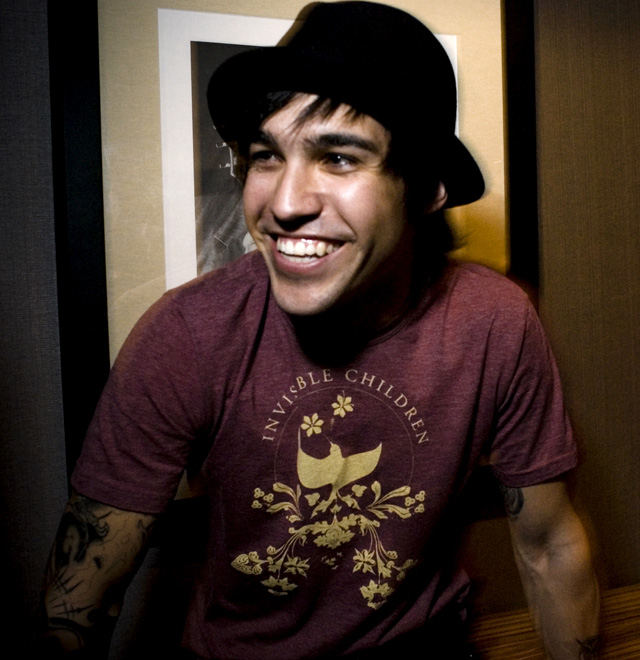 Pete Wentz. This pic is so grainy because I forgot to lower my film speed, BLACK AND WHITE LOOKS MUCH BETTER... AND ARTY.